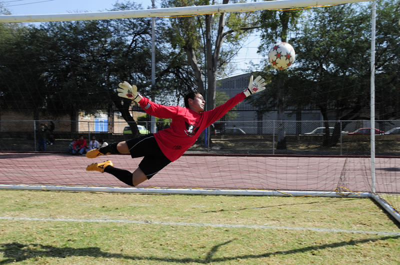 the picture is of the best keeper‚‘